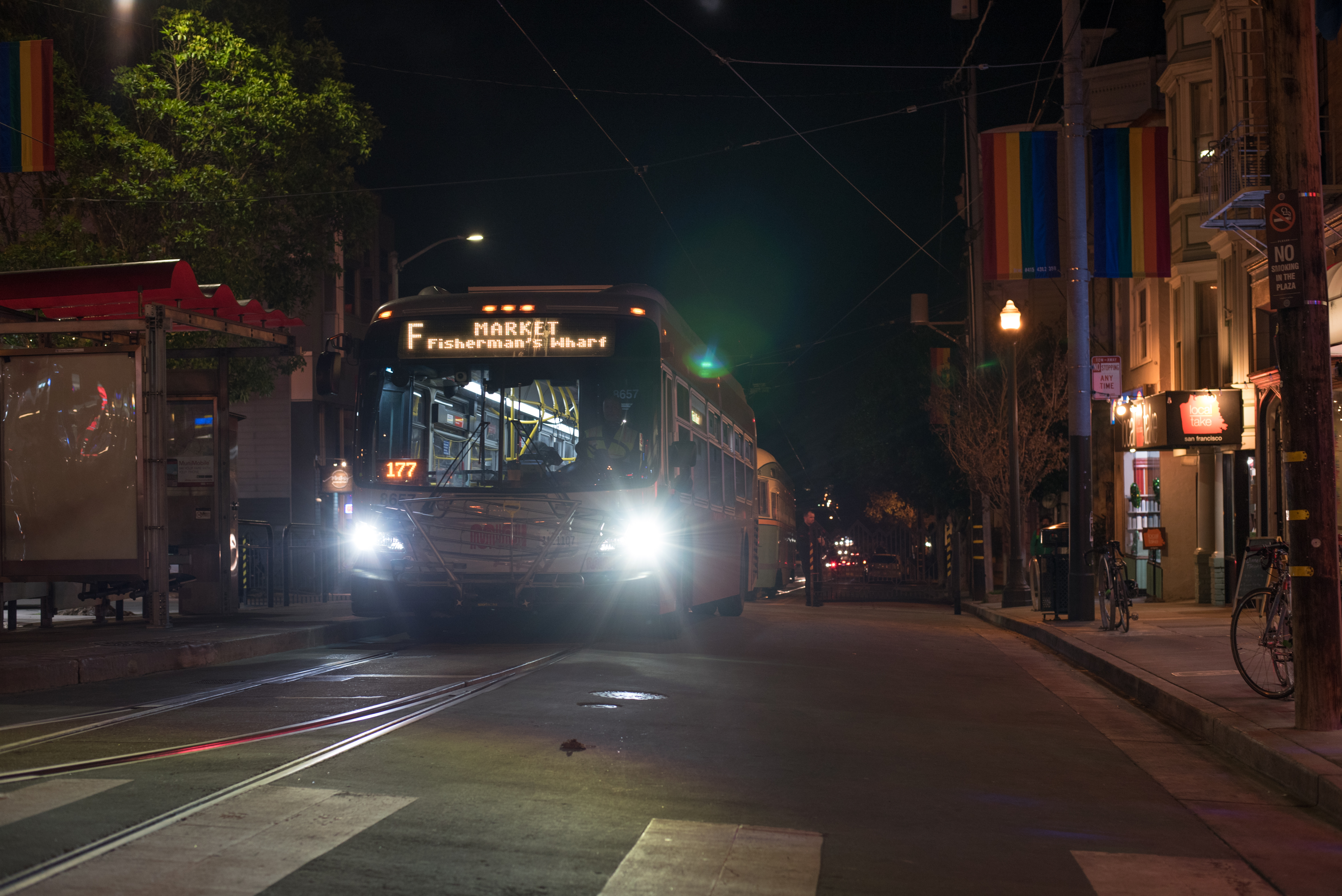 A Muni bus substitutes for historic streetcars on the F Market line in December 2017